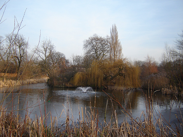 Clissold Park Lake (somewhat iced over), Stoke Newington, Hackney, London. 24 January 2006. Photographer: Fin Fahey.